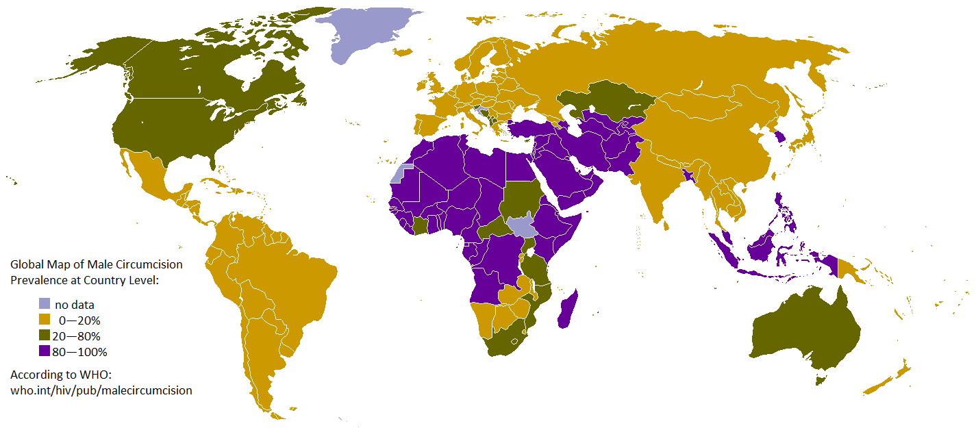 Global map of male circumcision prevalence at country level, as of December 2006.